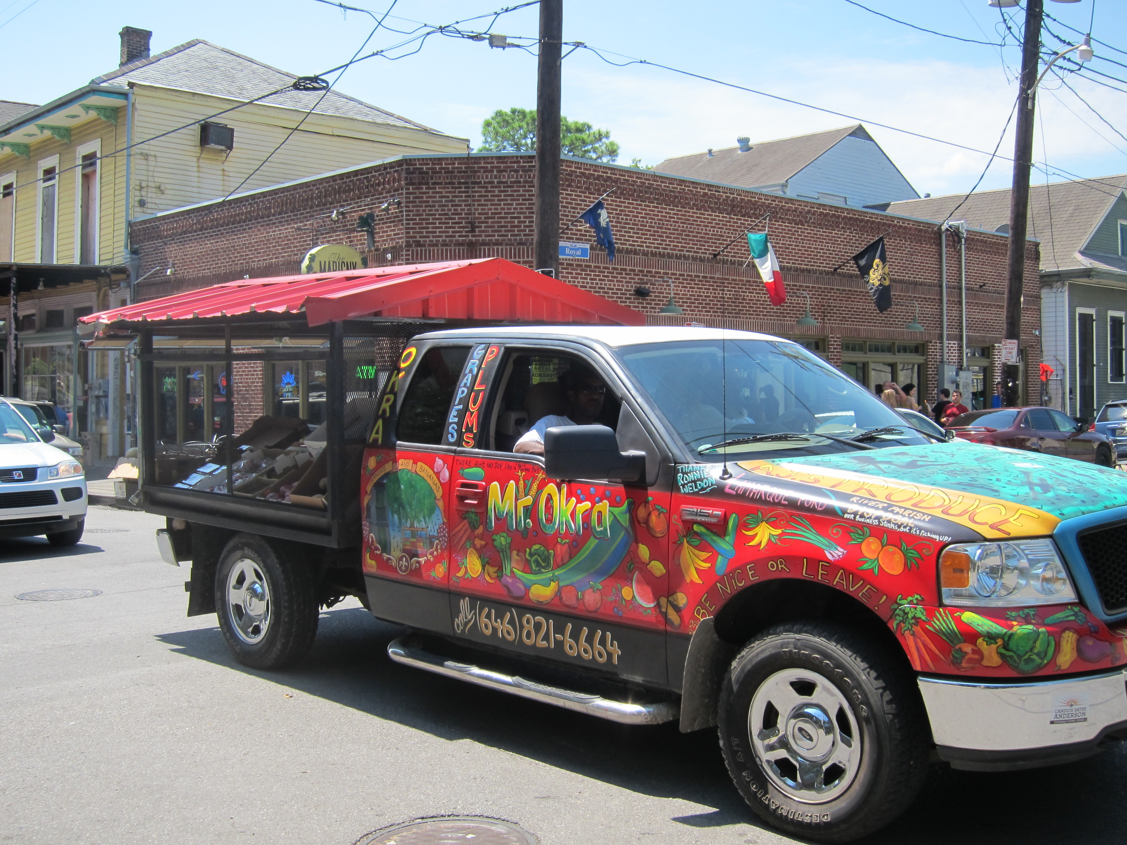 Frenchmen Street, New Orleans. Well known vegetable vendor "Mr. Okra" in his colorful truck.